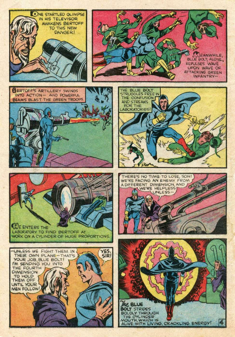 Page from Blue Bolt #5, Oct 1940